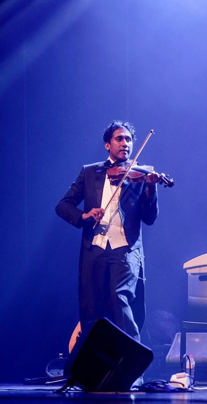 Sri Lankan composer and musician Dinesh Subasinghe in concert at Nelumpokuna theater, Colombo, Sri Lanka